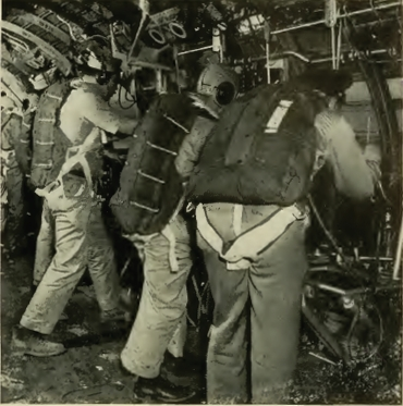 Inside a C-54 photographic plane flying at high altitude, a row of cameramen aim their lenses at the Lagoon below. On Able Day photographers in some planes were vigorously buffeted by the primary and secondary shock waves, forceful enough to knock down one photographer caught off balance.